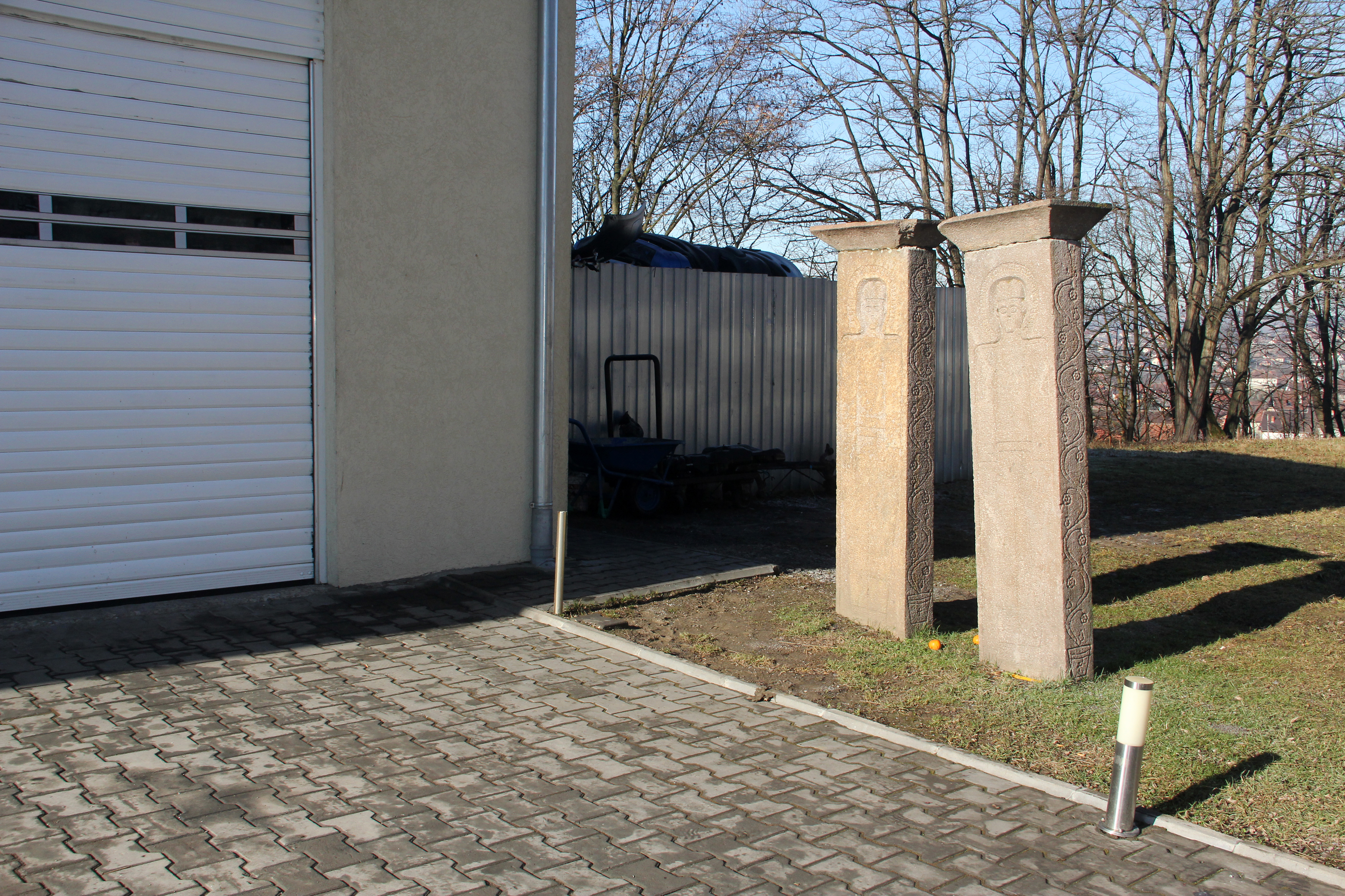 Roadside tombstones of Kovacevic's brothers, the village of Nevade (municipality of Gornji Milanovac), Serbia.